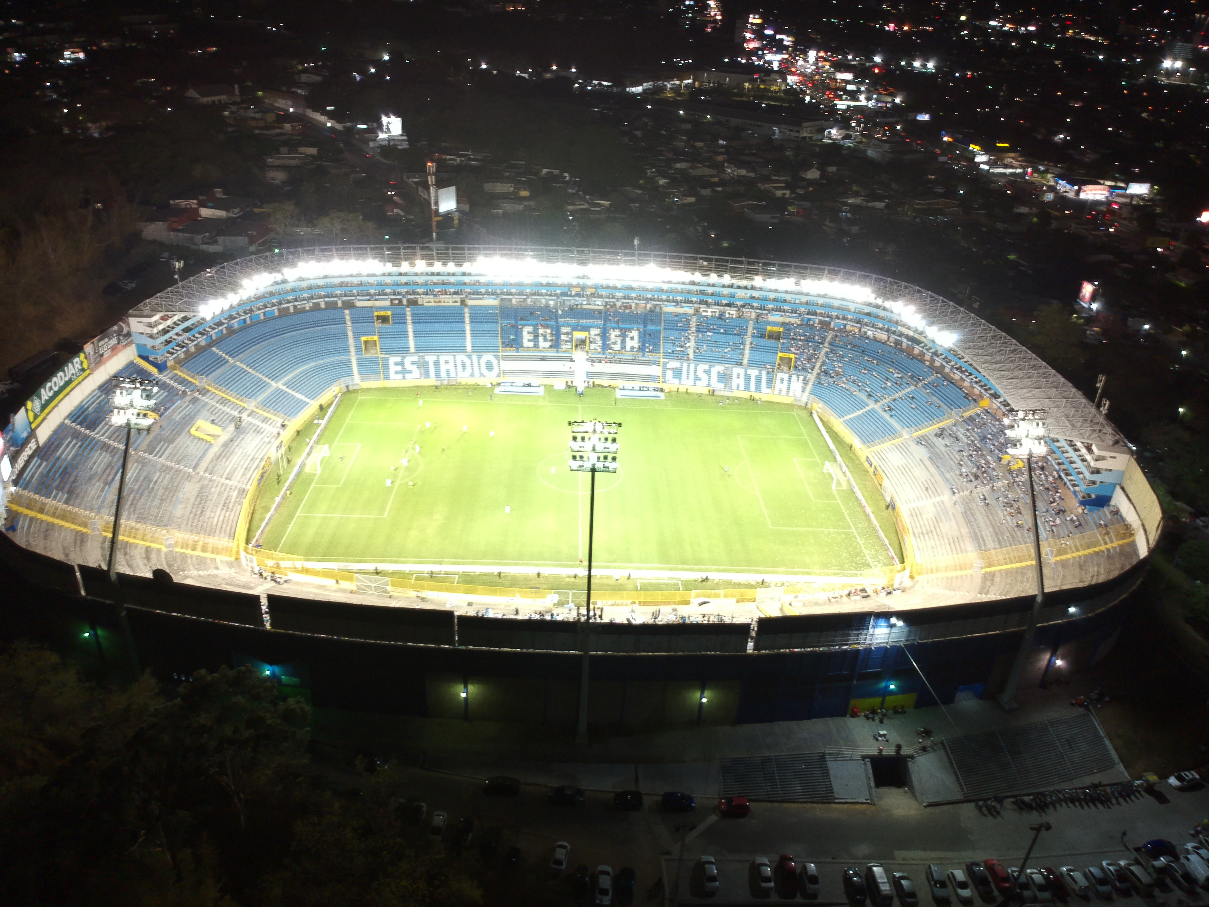 Cuscatlan Stadium